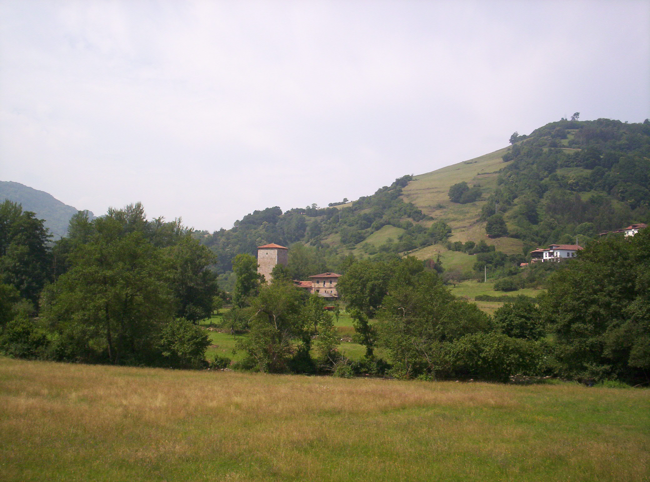 Tower and Palace, Villanueva de los Infantes, Asturias